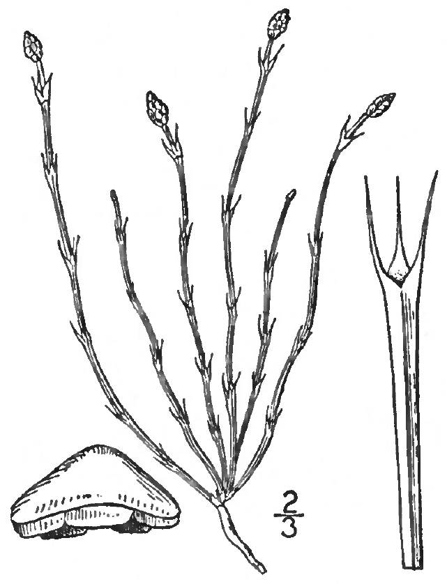 Fig. 99. Equisetum scirpoides from the second edition of An Illustrated Flora of the Northern United States, Canada and the British Possessions (New York, 1913)